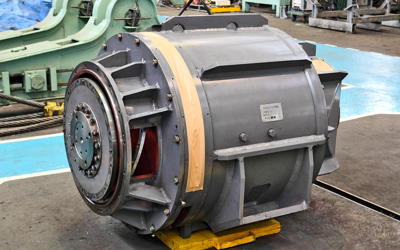 TOSHIBA type FDM301 synchronous electric generator of JR Freight type DF200.